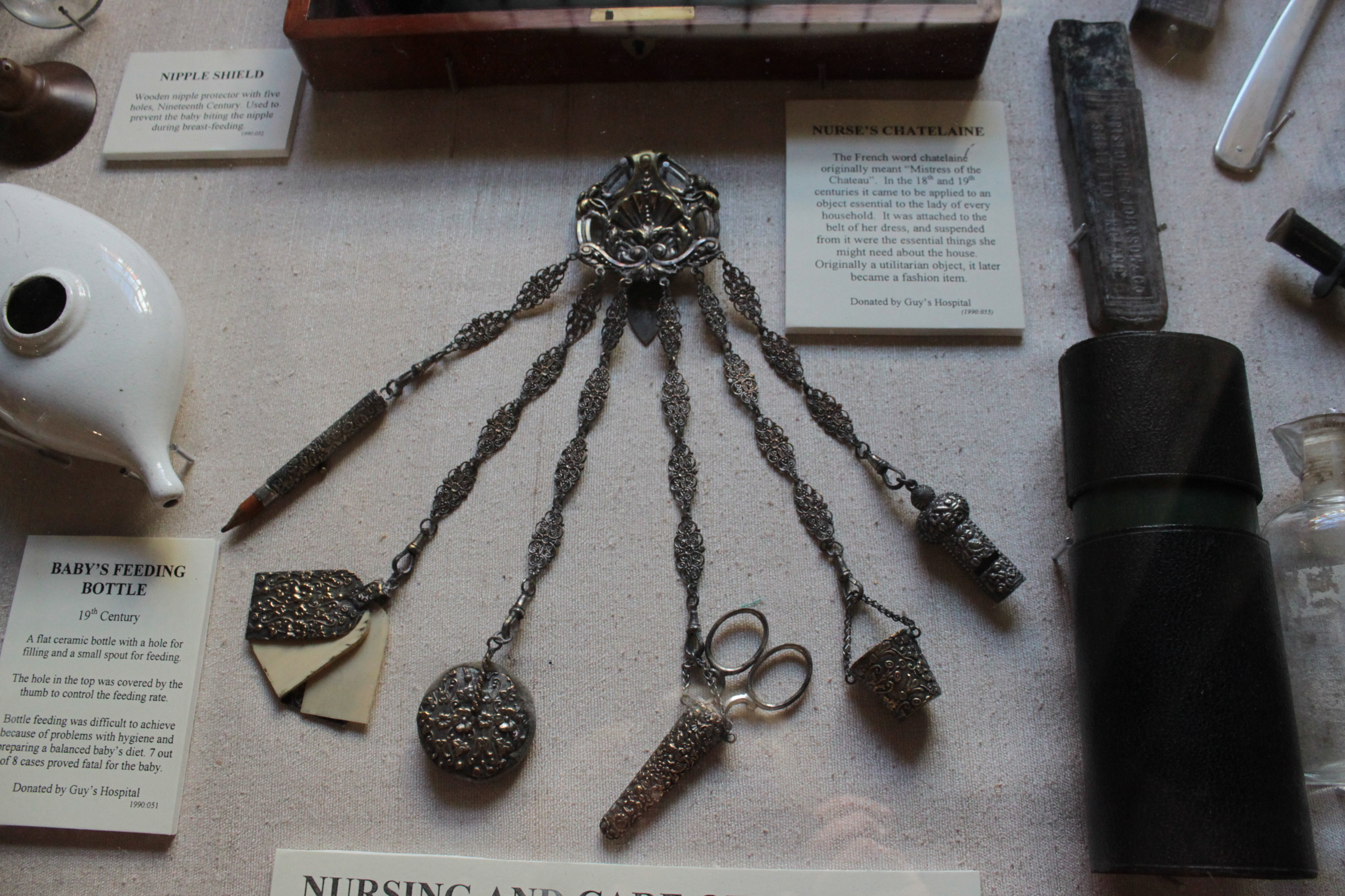 The French word chatelaine originally meant "Mistress of the Chateau.\" In the 18th and 19th centuries it came to be applied to an object essential to the lady of every household. It was attached to the belt of her dress and suspended from it were the essential things she might need about the house. Originally a utilitarian object, it later became a fashion item. The set contains a pencil, ivory notepad, pill box, pair of scissors, measure and a whistle.